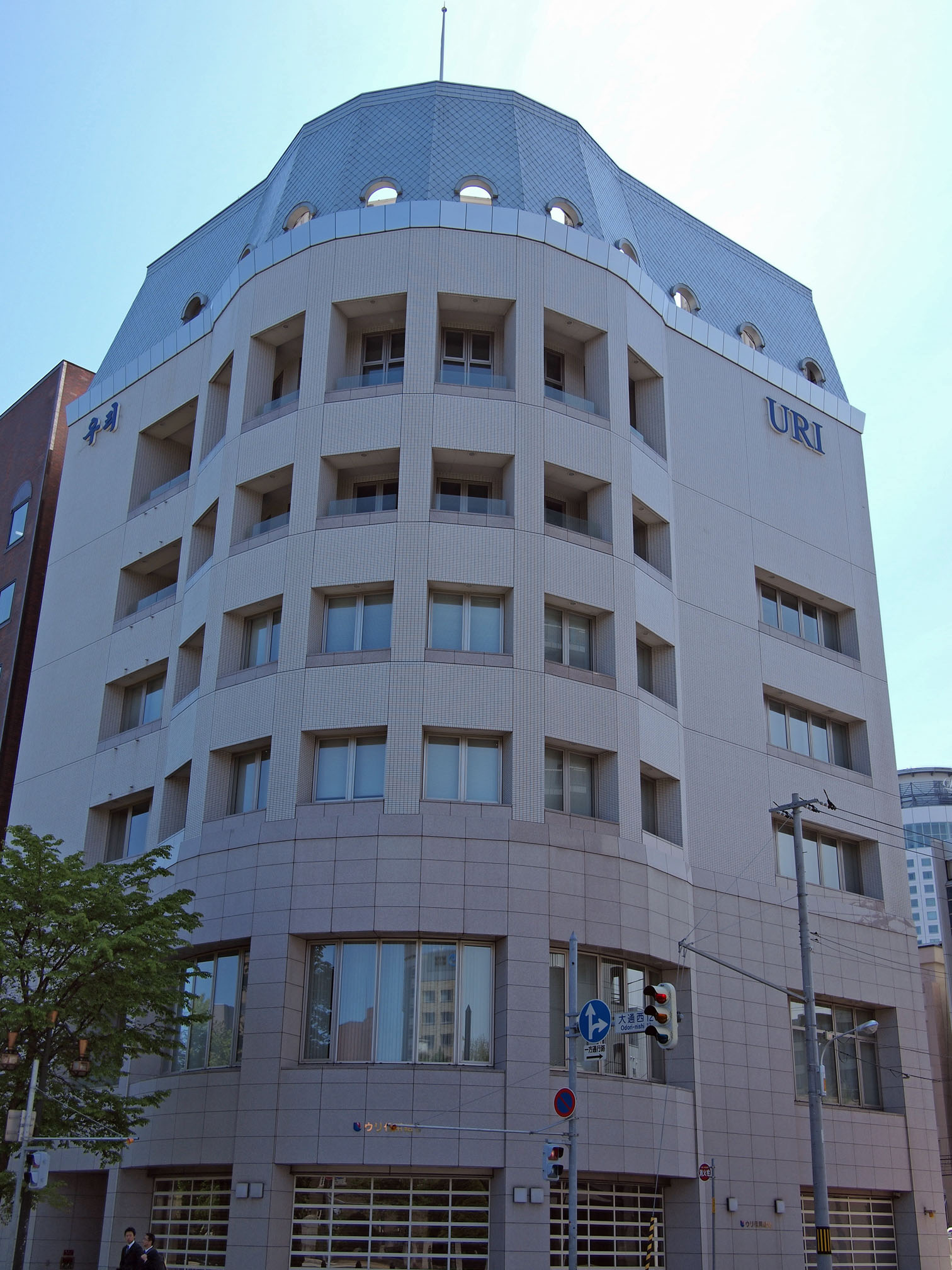 Uri credit union, Sapporo,Hokkaido, Japan